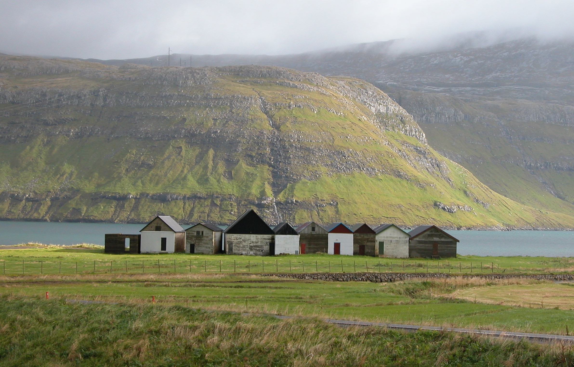 Hósvík on Streymoy, Faroe Islands